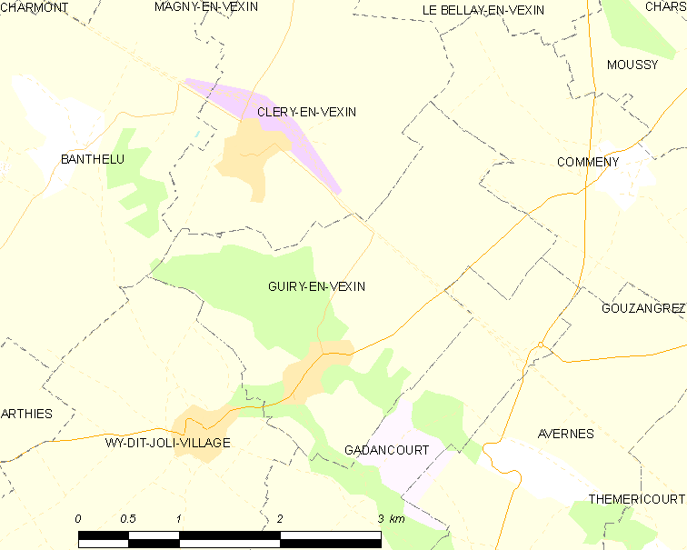 Map of French municipality Guiry-en-Vexin